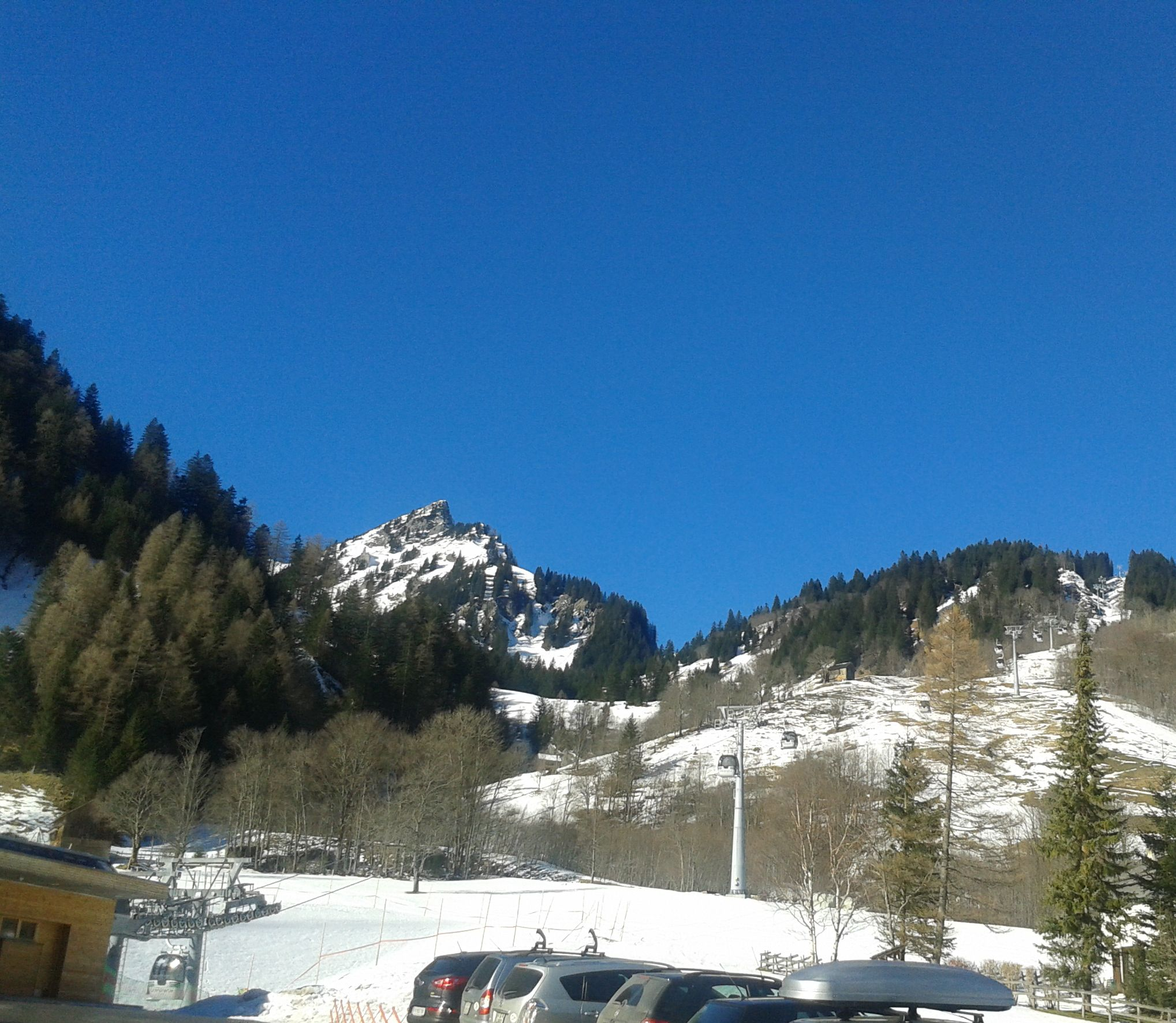 Paluedbahn (Brandnertal (Valley) in Vorarlberg, Austria). Visible is a part of the lower station and cable cars.